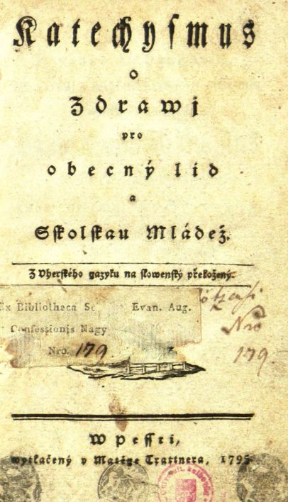 Title page of translation work (orig. German and nem. Author) by George Ribaya published in Pest r. 1795.